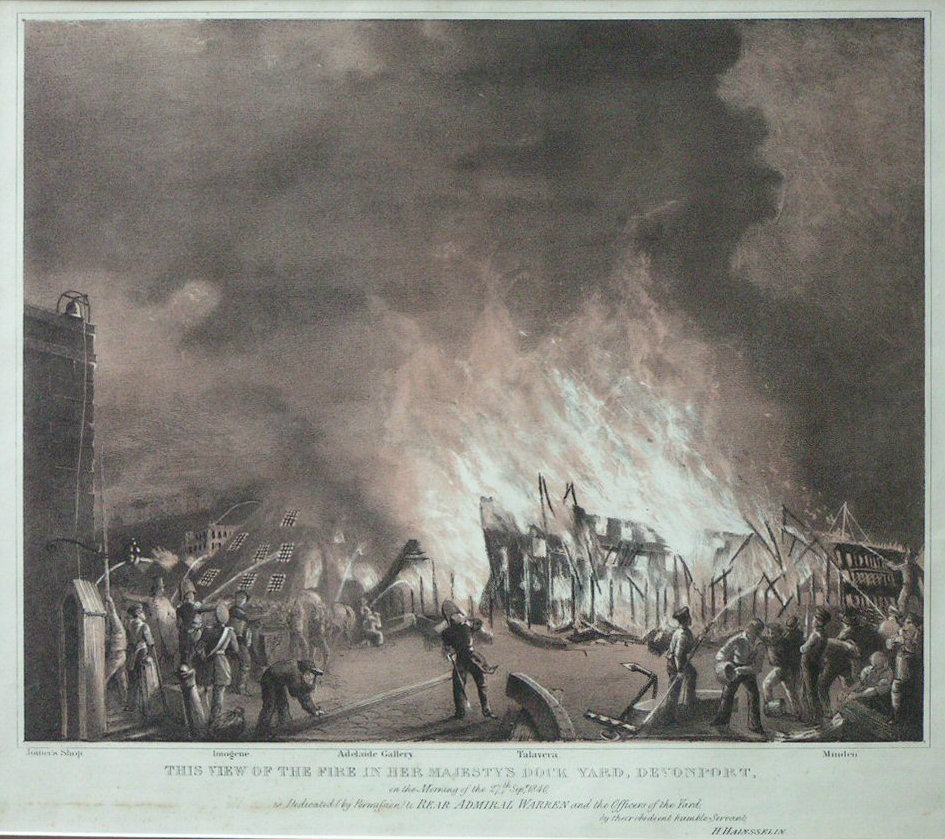 This view of the Fire in Her Majesty's Dock Yard Devonport on the Morning of the 27th Sept 1840, by H. Hainsselin Medium: Lithograph Engraver: Hainsselin H Date: 1840 Dimensions: 343 x 381 mm